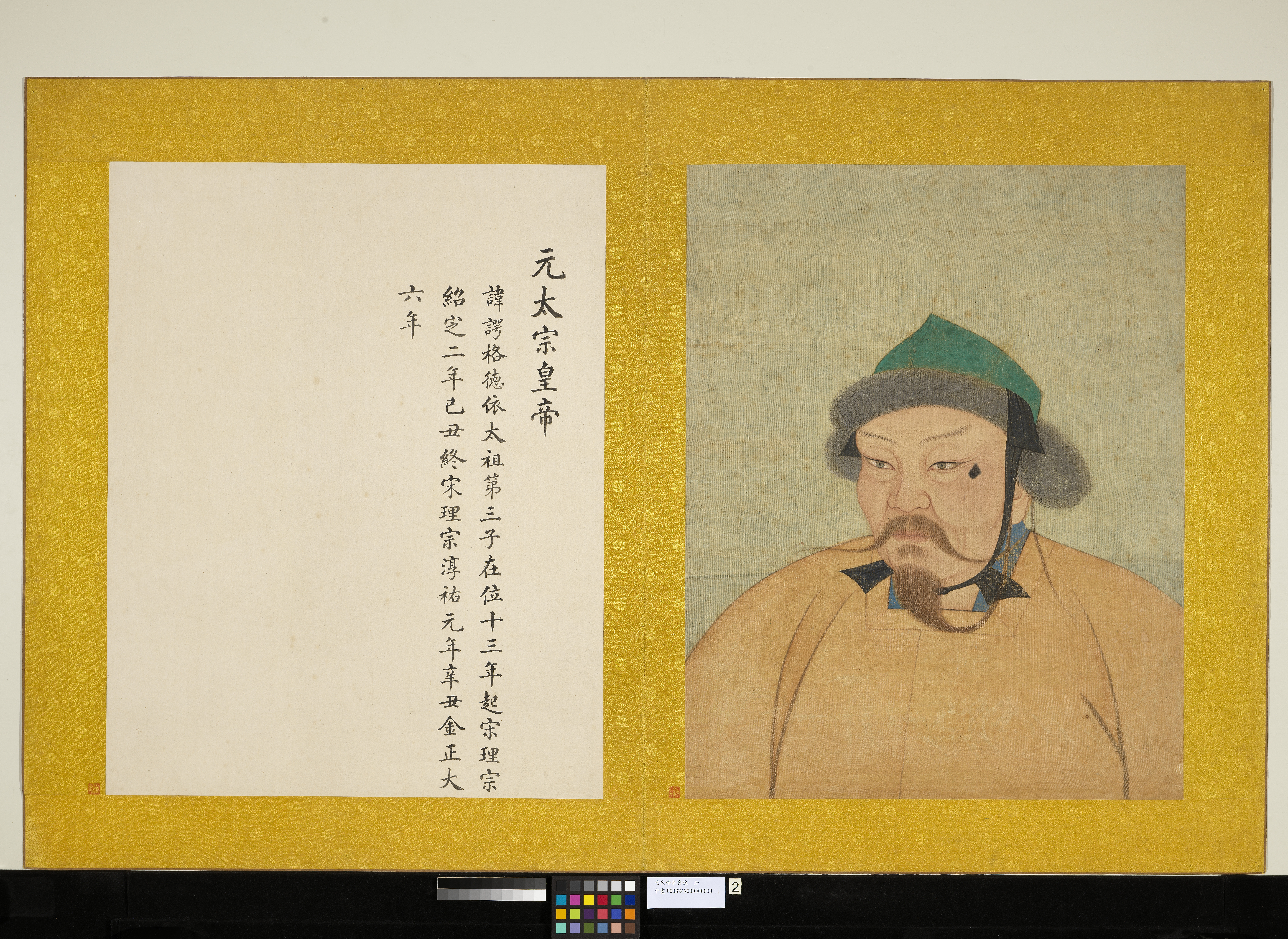 Taizong, better known as Ögedei Khan. Page from an album depicting several Yuan emperors (Yuandai di banshenxiang), now located in the National Palace Museum in Taipei (inv. nr. zhonghua 000324). Original size is 116.1 cm wide and 74.1 cm high. Paint and ink on silk. For the portrait cropped out, see Image:YuanEmperorAlbumOgedeiPortrait.jpg.